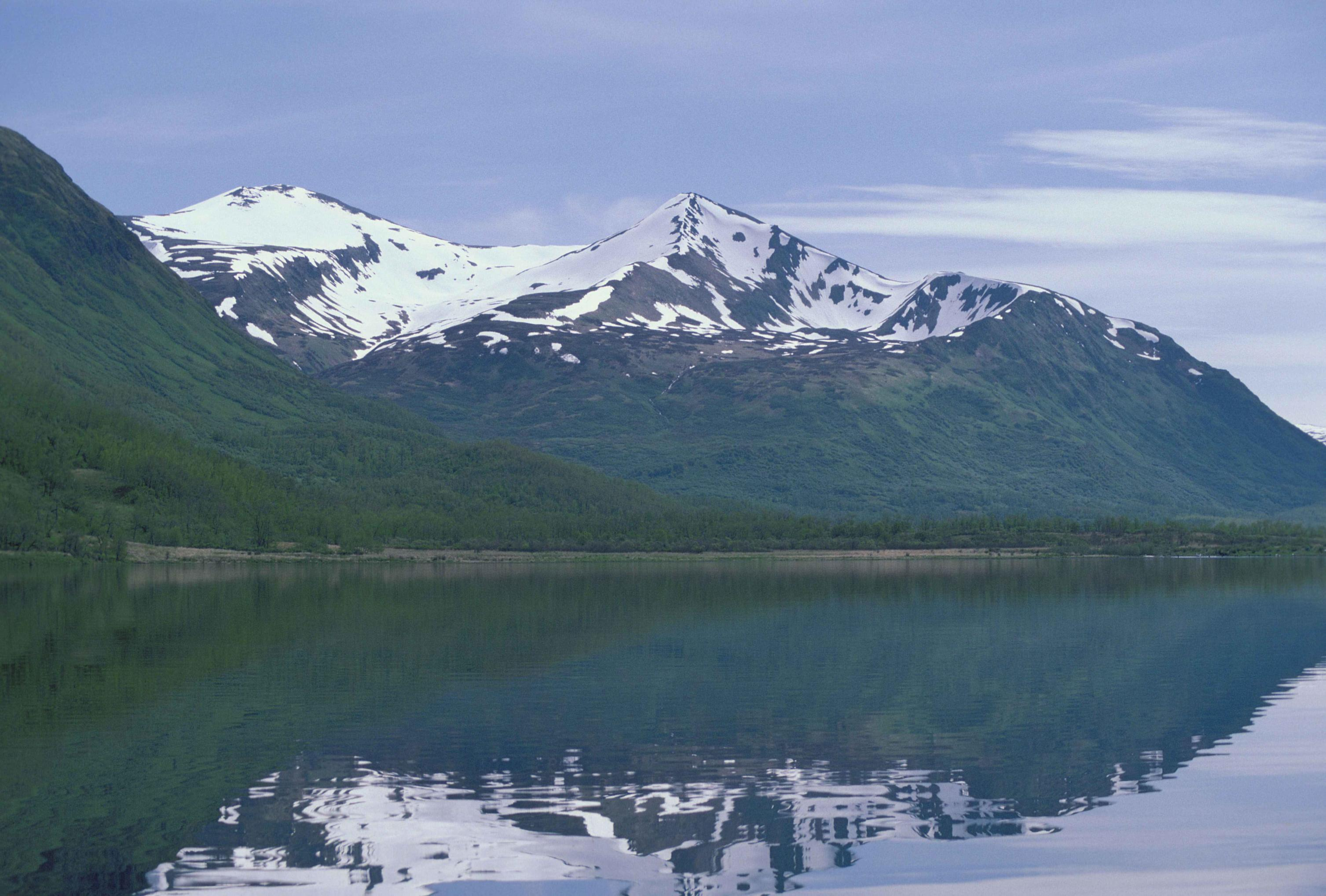 Image title: Karluk lake and mountains Image from Public domain images website